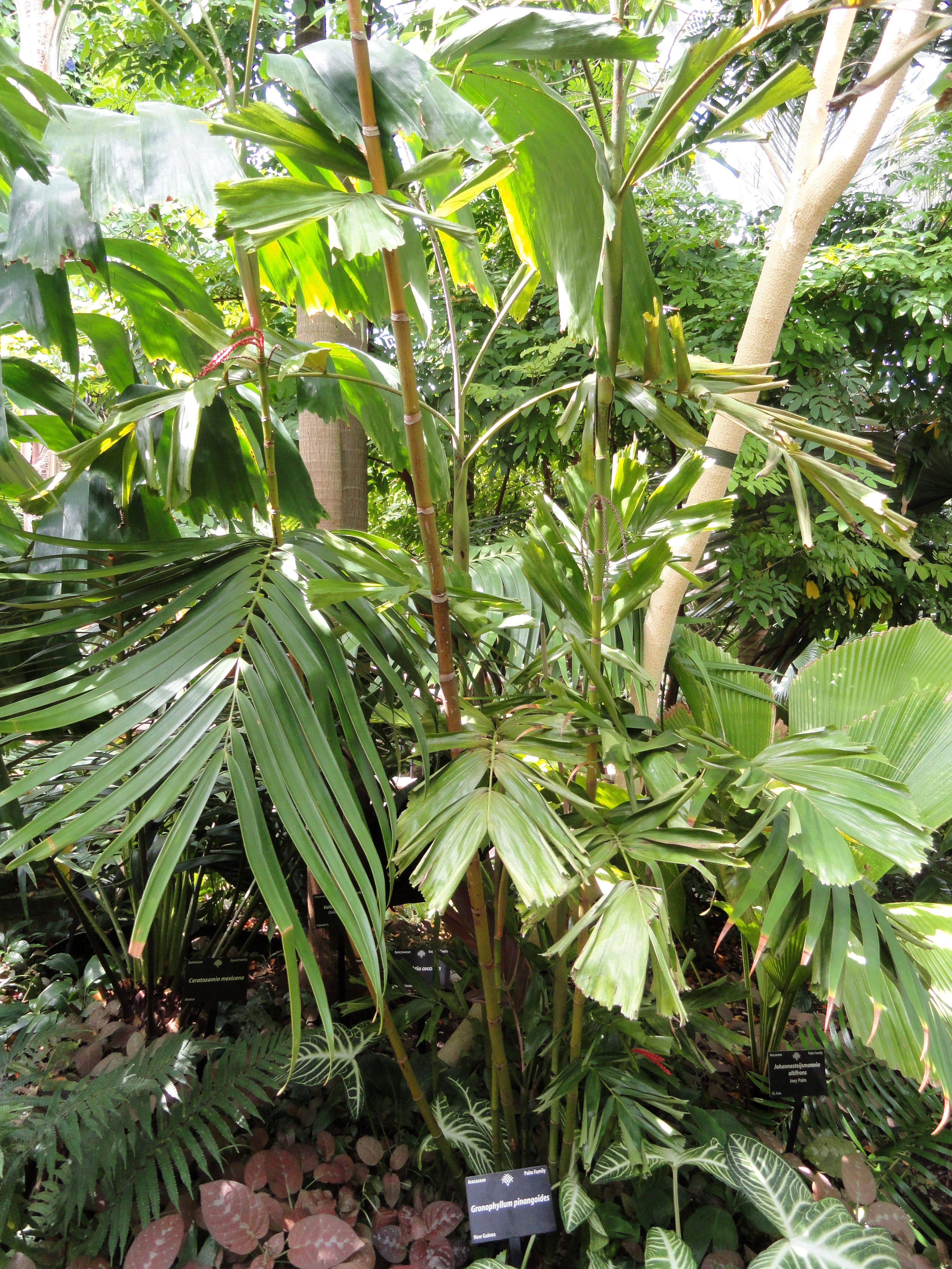 Gronophyllum pinangoides (now Hydriastele pinangoides). Botanical specimen in the Denver Botanic Gardens, 1007 York Street, Denver, Colorado, USA.